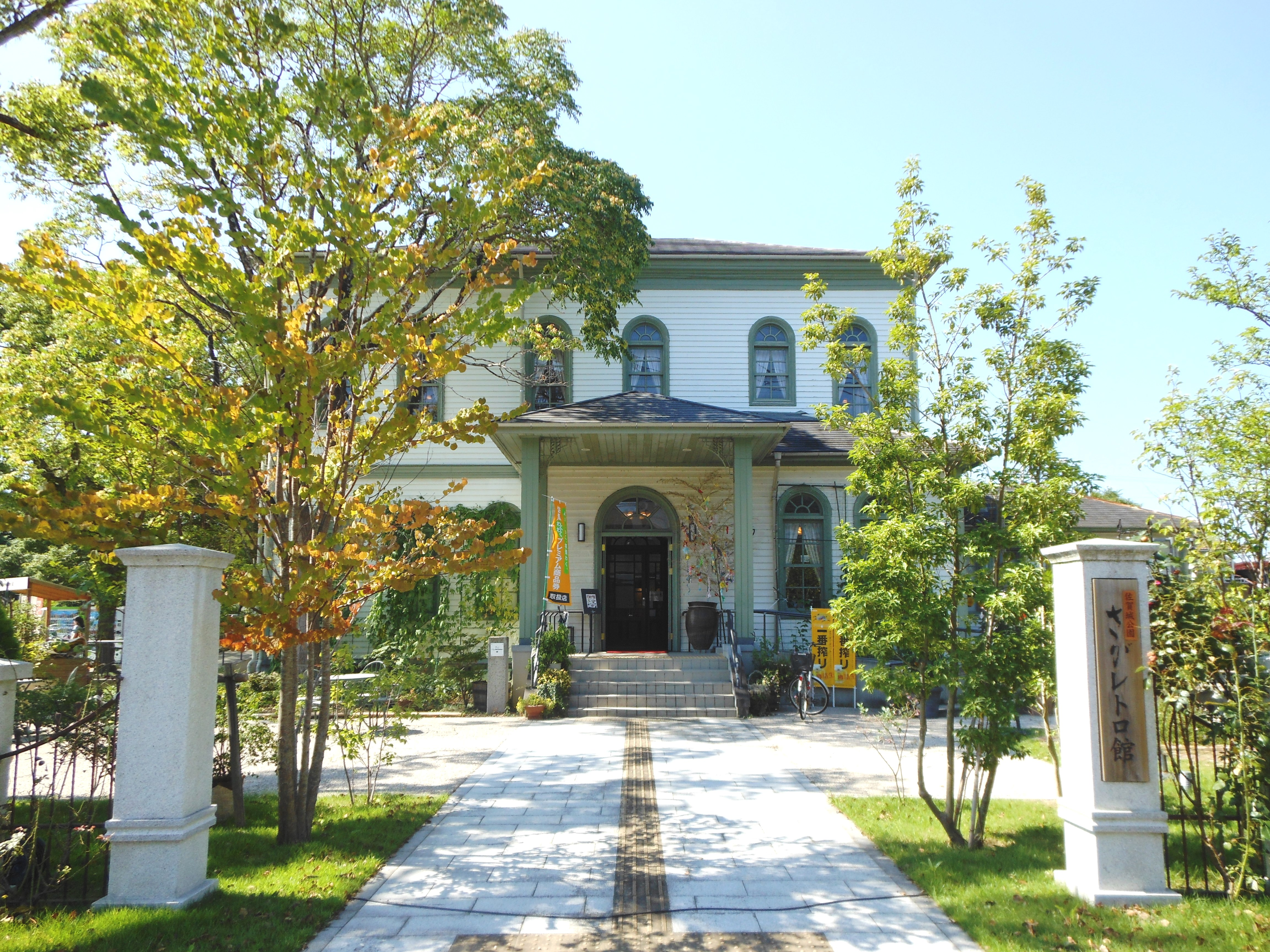 Saga Retro-kan, a old Western architecture, in Saga city.